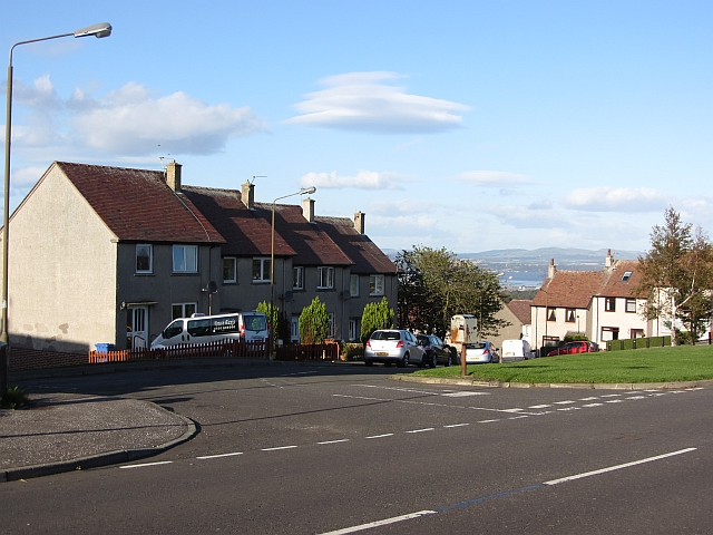 California Road, Maddiston